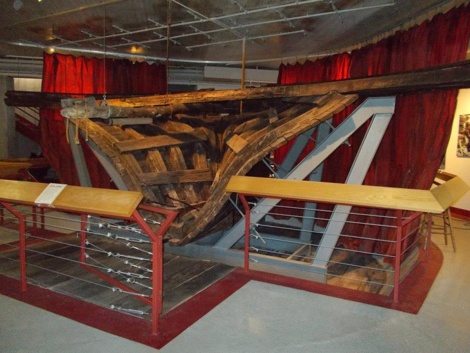 Stern of Steamboat Arabia, which sank in 1856